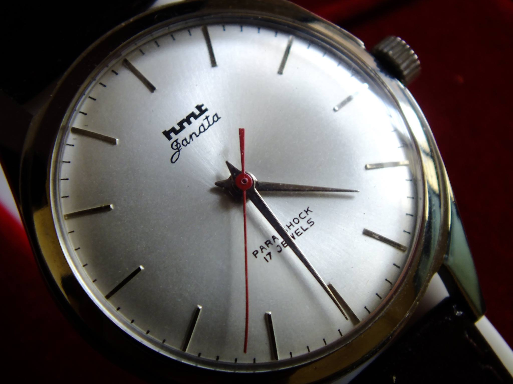 The very common yet famous mechanical watch from HMT. Popular with people abroad India as well.